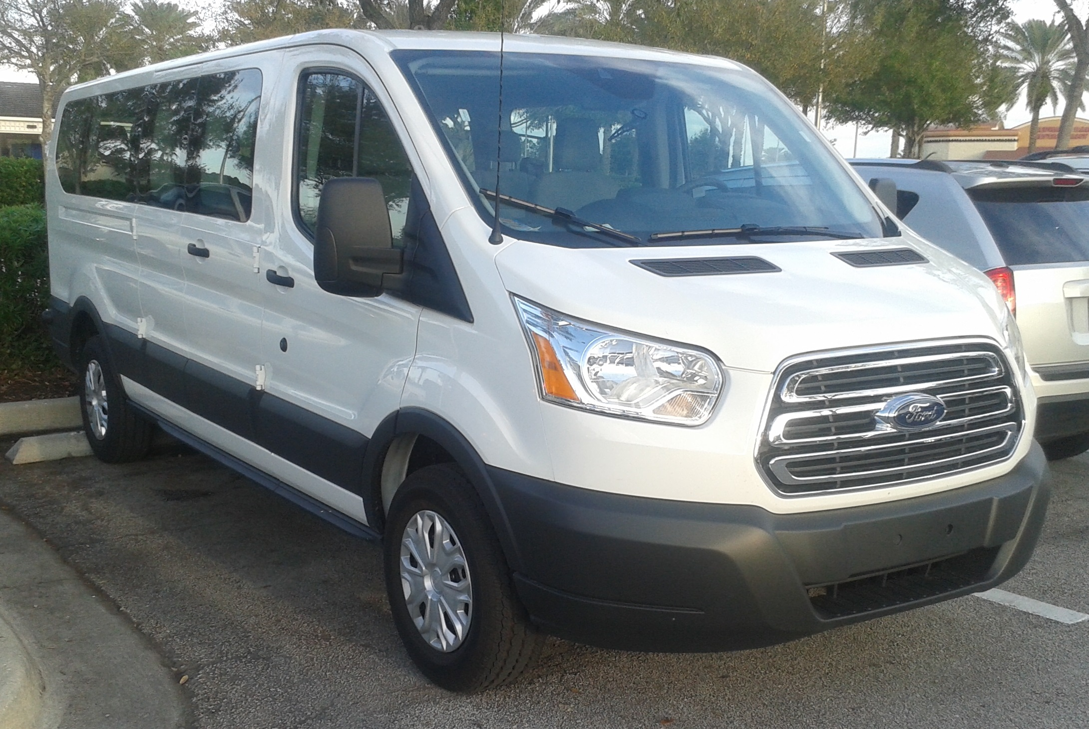 2015 Ford Transit photographed in Orlando, Florida, USA.